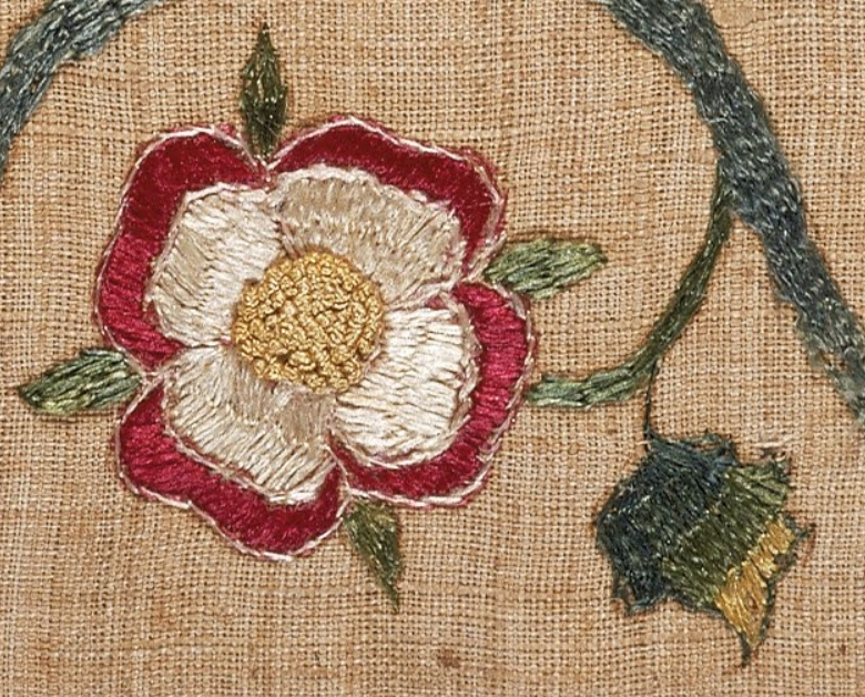 Flower with plain stitches and french knots in the middle. Detail of another image. Sally Jackson - Sampler - Google Art Project